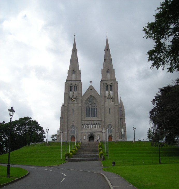 Photo of the St. Patrick's Cathedral, Armagh